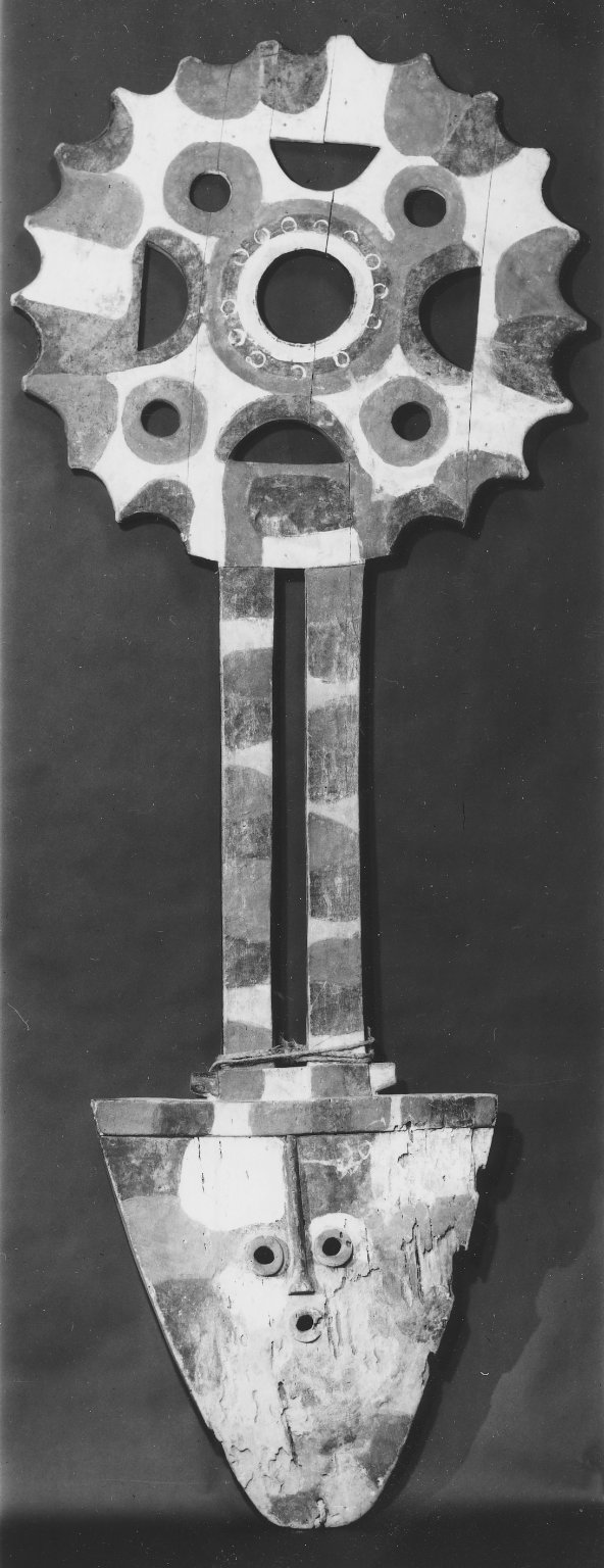 Bedu Female Mask